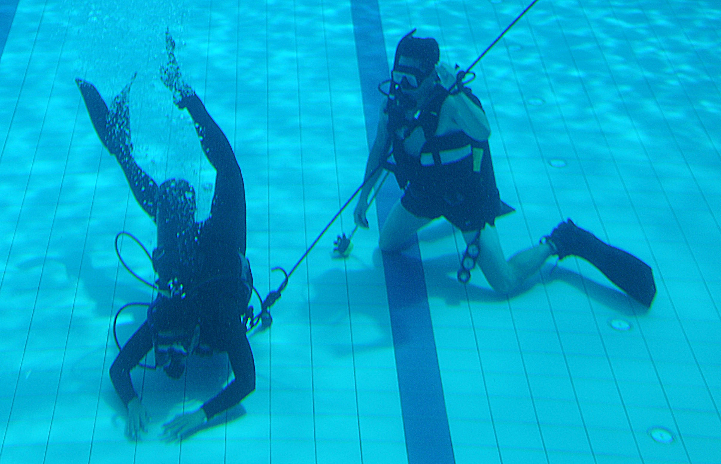 5/31/2009 - A pararescueman from the 320th Special Tactics Squadron watches a Paskau member of the Royal Malaysian Air Force conduct a search pattern during an underwater search and recovery course here May 28 as part of Teak Mint 09-1. The Paskau is the special operations branch of the Royal Malaysian Air Force. Teak Mint 09-1 is a training exchange designed to enhance U.S and Malaysian military training and capabilities. U.S Air Force photo by Tech. Sgt. Aaron Cram (RELEASED).